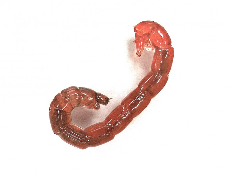 Chironomus spec. (Chironomidae) - (larva), Elst (Gld) - De Park, the Netherlands